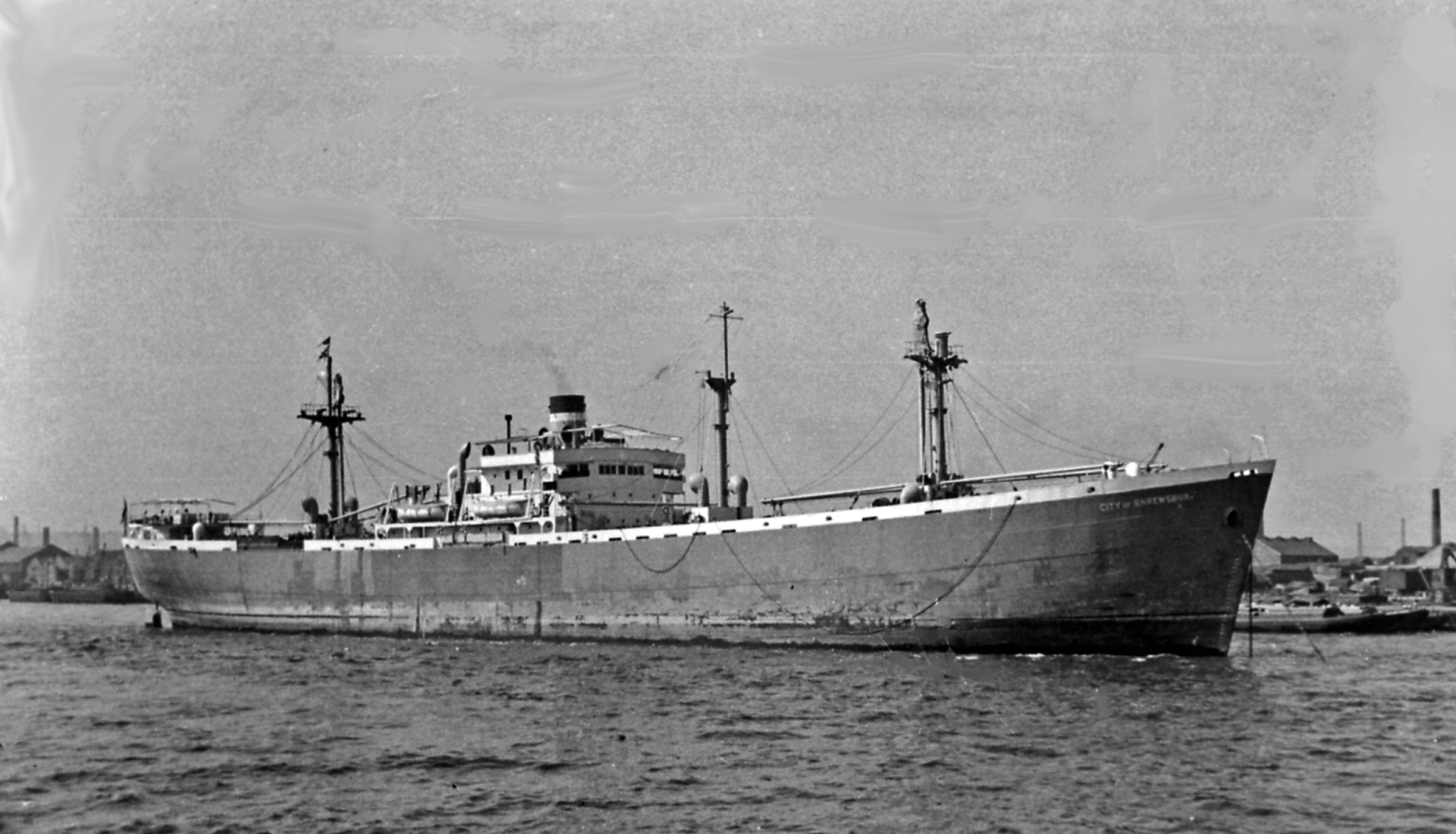 Ellerman Lines 'City of Shrewsbury' moored in Thames off Surrey Docks, 1950. View SW from pleasure steamer going to Southend. [Precise location a little uncertain].